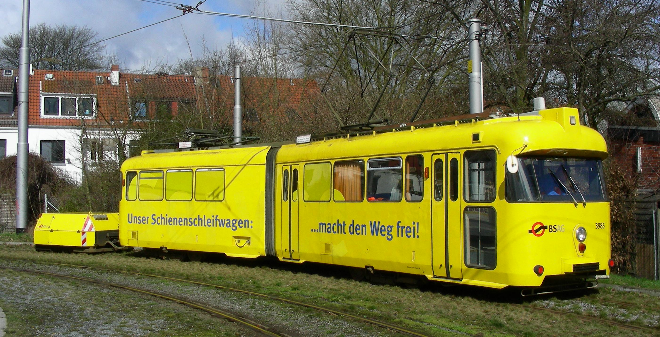 Track Engineering car of Bremer Strassenbahn